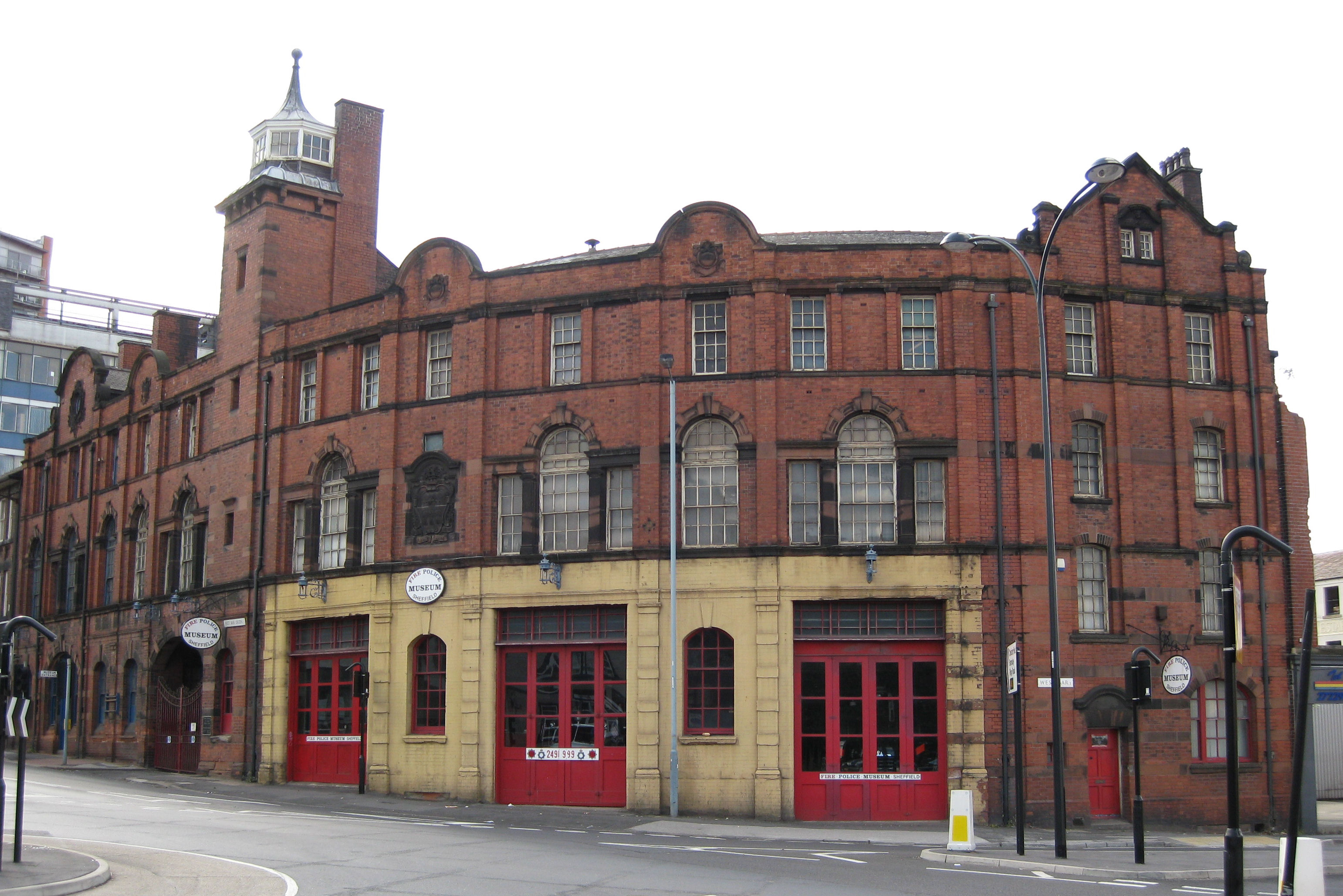 Fire and Police Museum, West Bar, Sheffield S3 8PT. Building opened 1900. Museum opened 1982. Only Fire service tower in the UK.